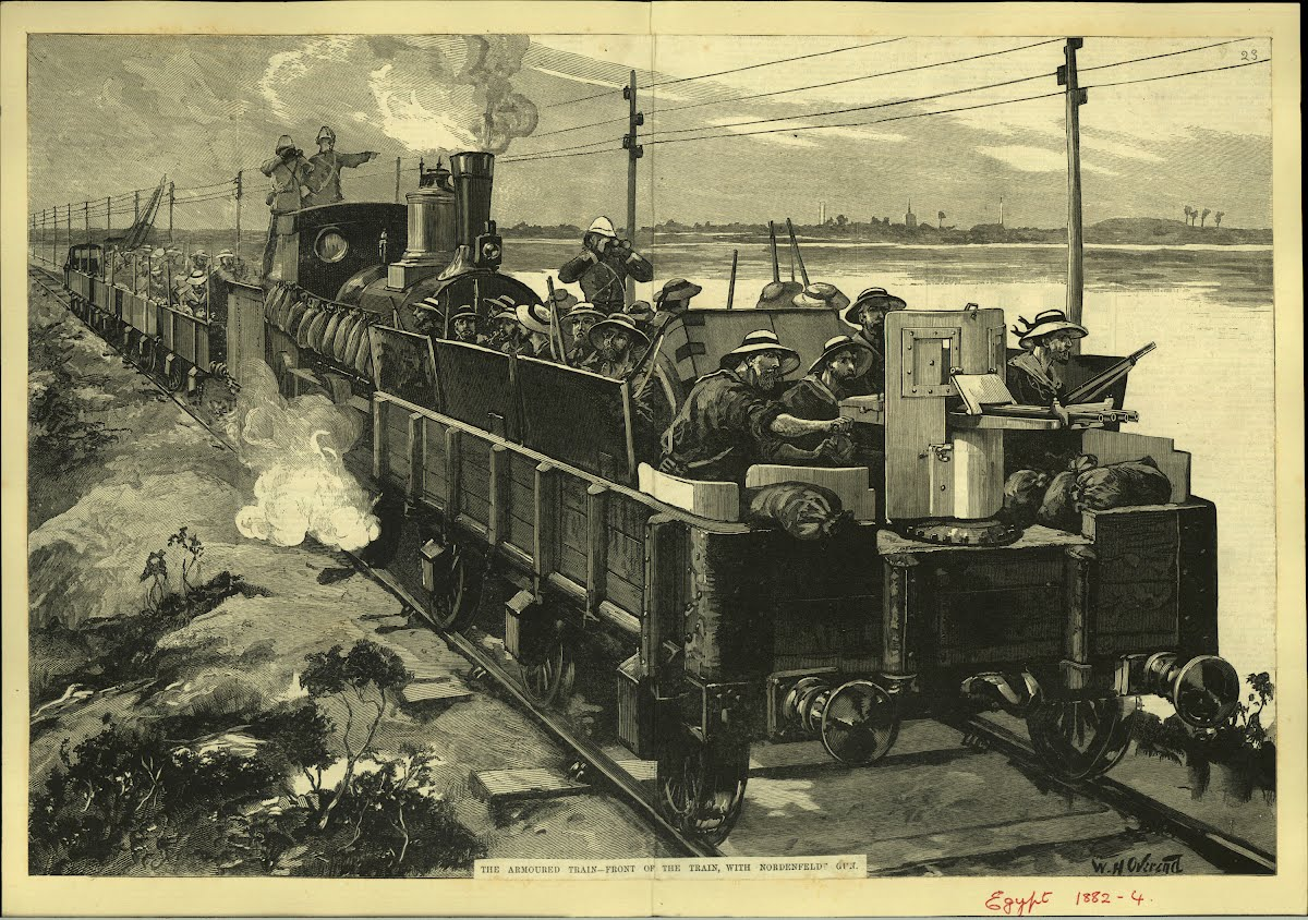 British troop train in Egypt 1882